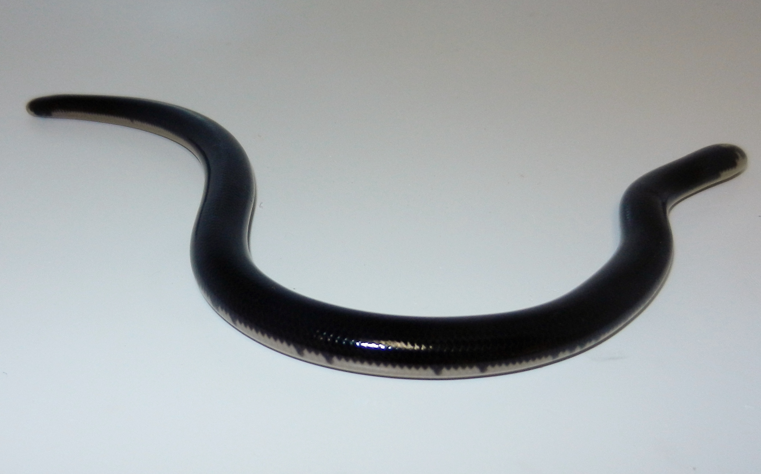 Typhlops reticulatus at the Manu Learning Center, Madre de Dios (Perú).